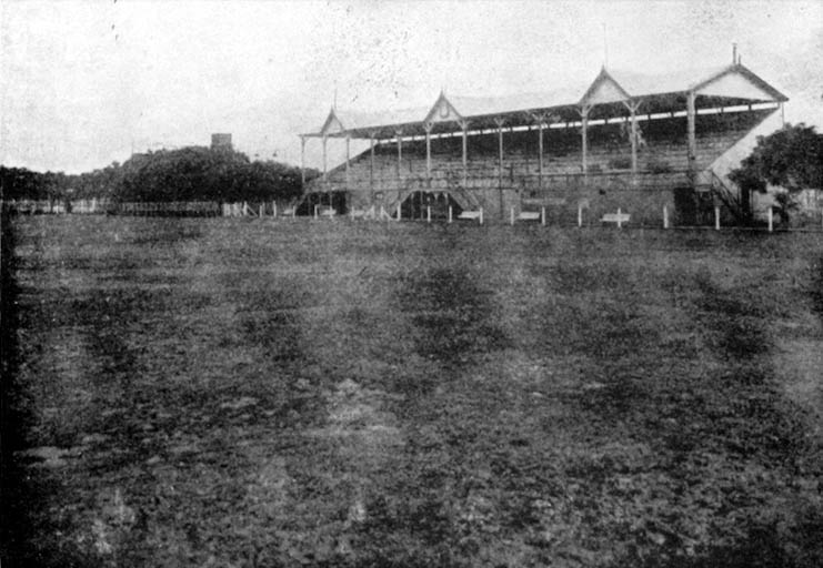 Club Atlético de San Isidro stadium during the 1920s.